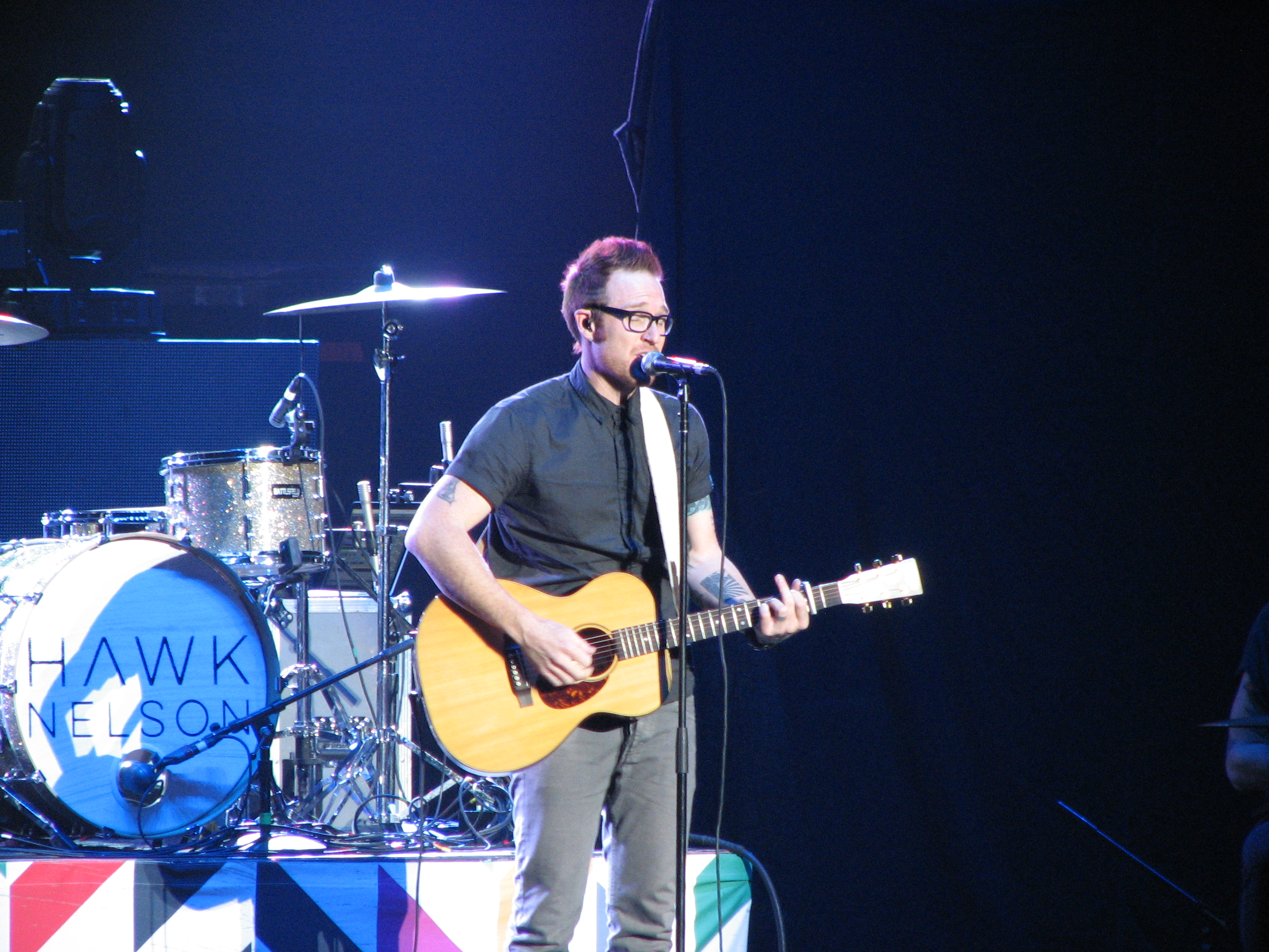 Ryan Stevenson performing in 2015